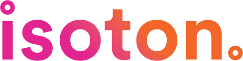 Isoton logo